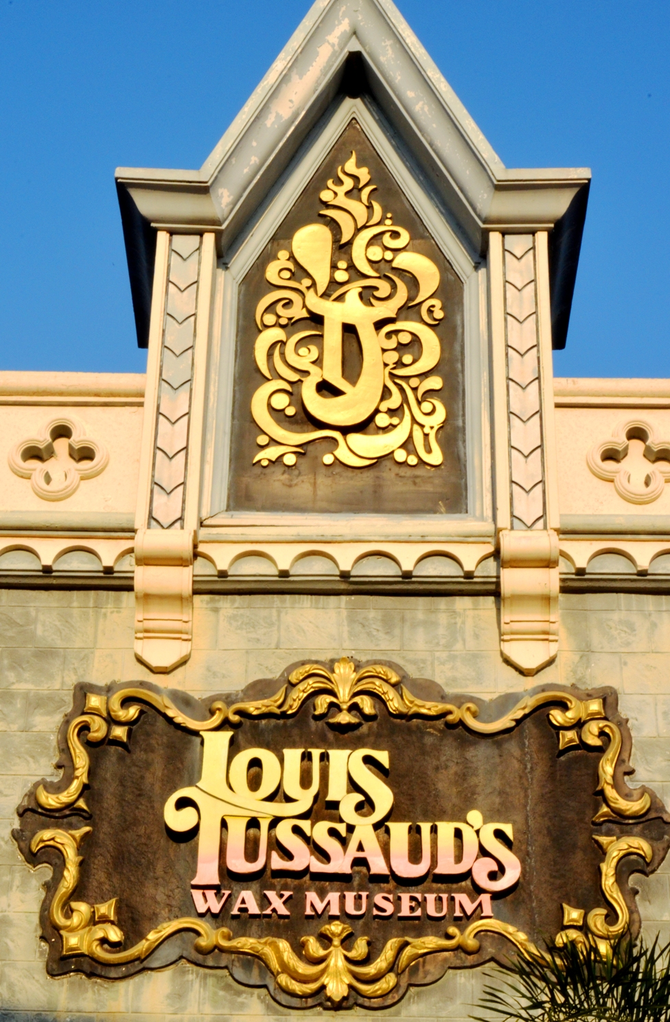 Louis Tussaud's Wax Museum at Innovative Film City, Bangalore, India. (Photo - Jim Ankan Deka)